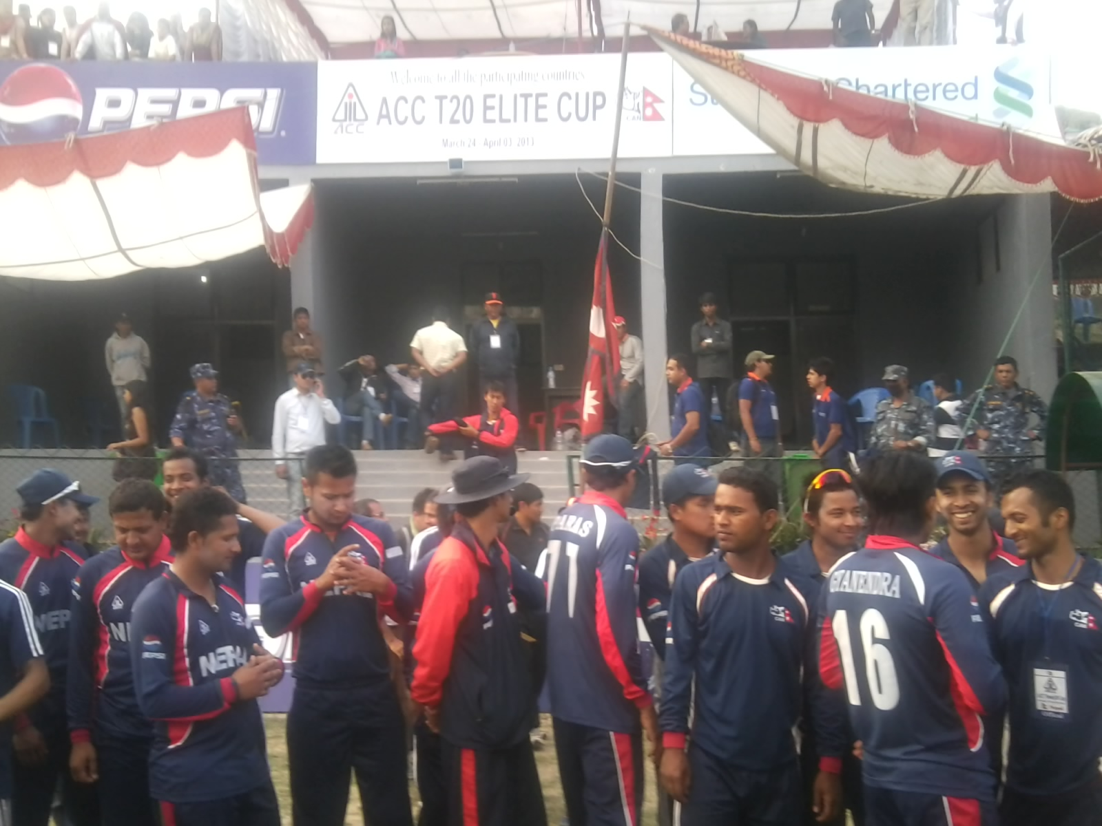 Nepali National cricket team during ACC Twenty20 cricket 2013.